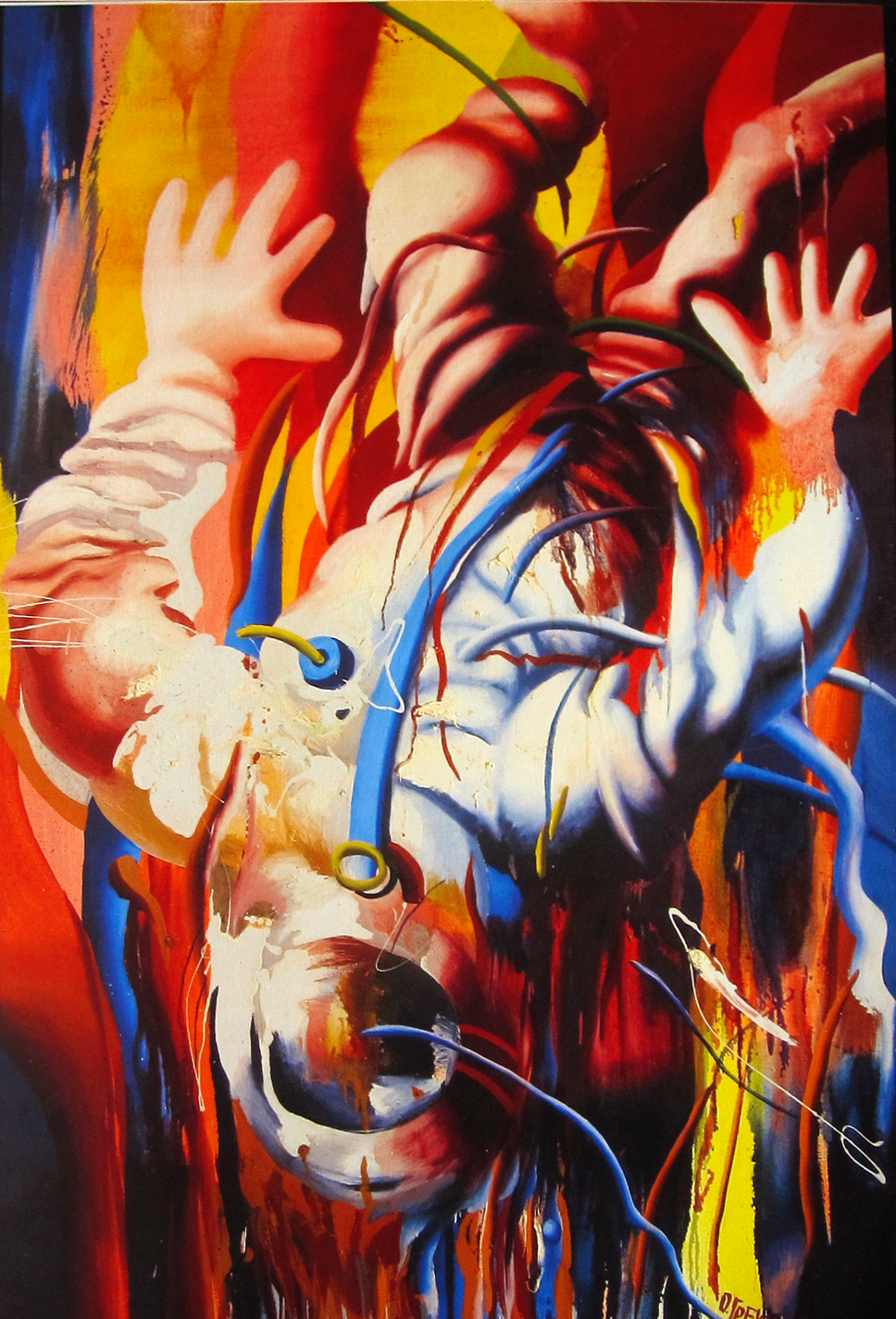 The death of the cosmonaut